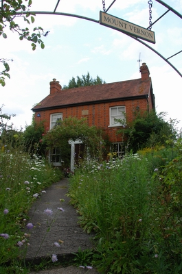 "Mount Vernon", house of Edward Bach in Brightwell-cum-Sotwell